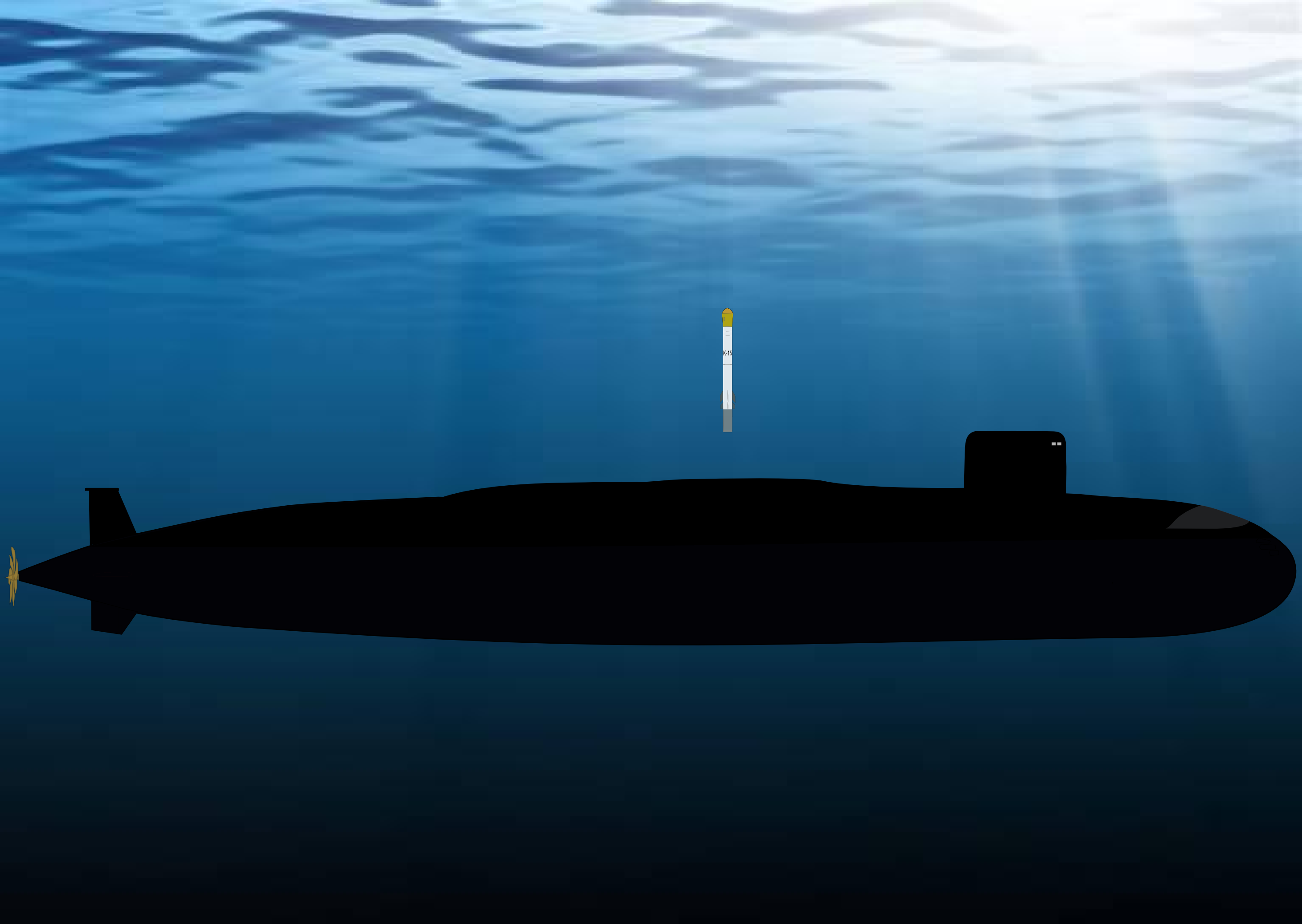 The graphic image of Arihant class SSBN created using inputs from India today image[1], sketch drawing of INS Arihant by Sandeep Unnithan[2], inputs from Shiv Aroor and underwater photography by Lars LentzFile:LightningVolt Deep Blue Sea.jpg.